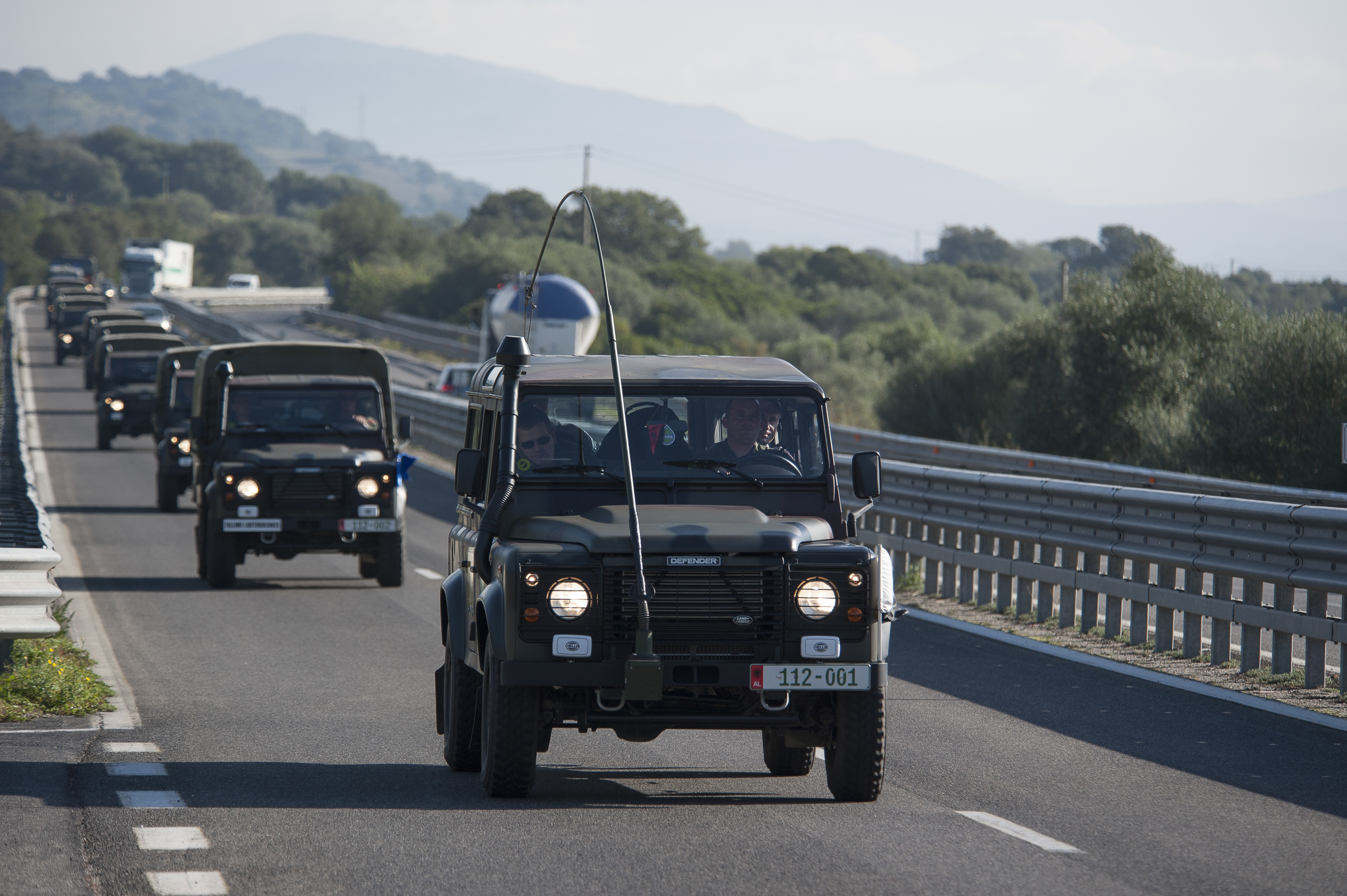 Convoy transfer of Albanian Army personnel and equipment from the Olbia seaport to Capo Teulada, Sardinia, Italy on October 19, 2015, during Trident Juncture 15. (Photo: Alessio Ventura)